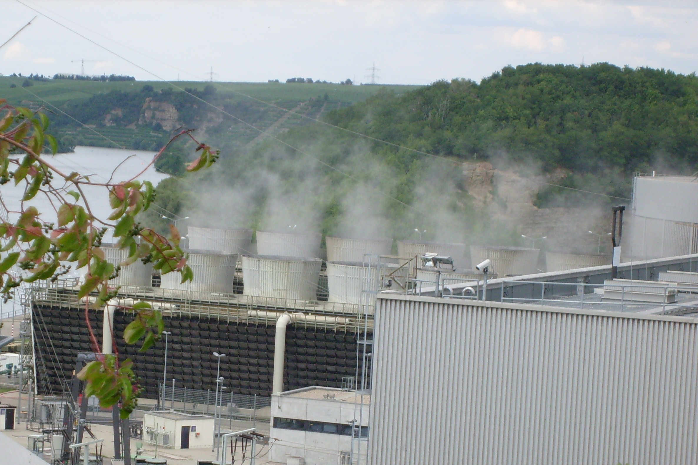 The former cell cooling towers of Unit 1 of Neckarwestheim Nuclear Power Plant.